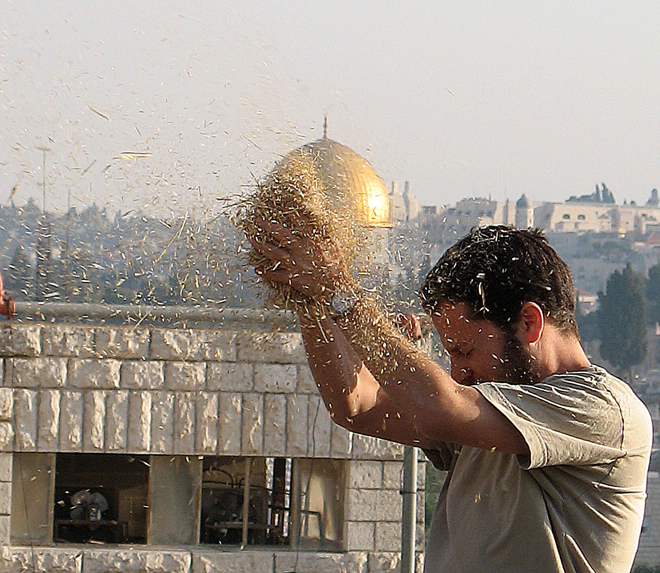 Throwing wheat with the background of the Temple M, Agriculture in Israel